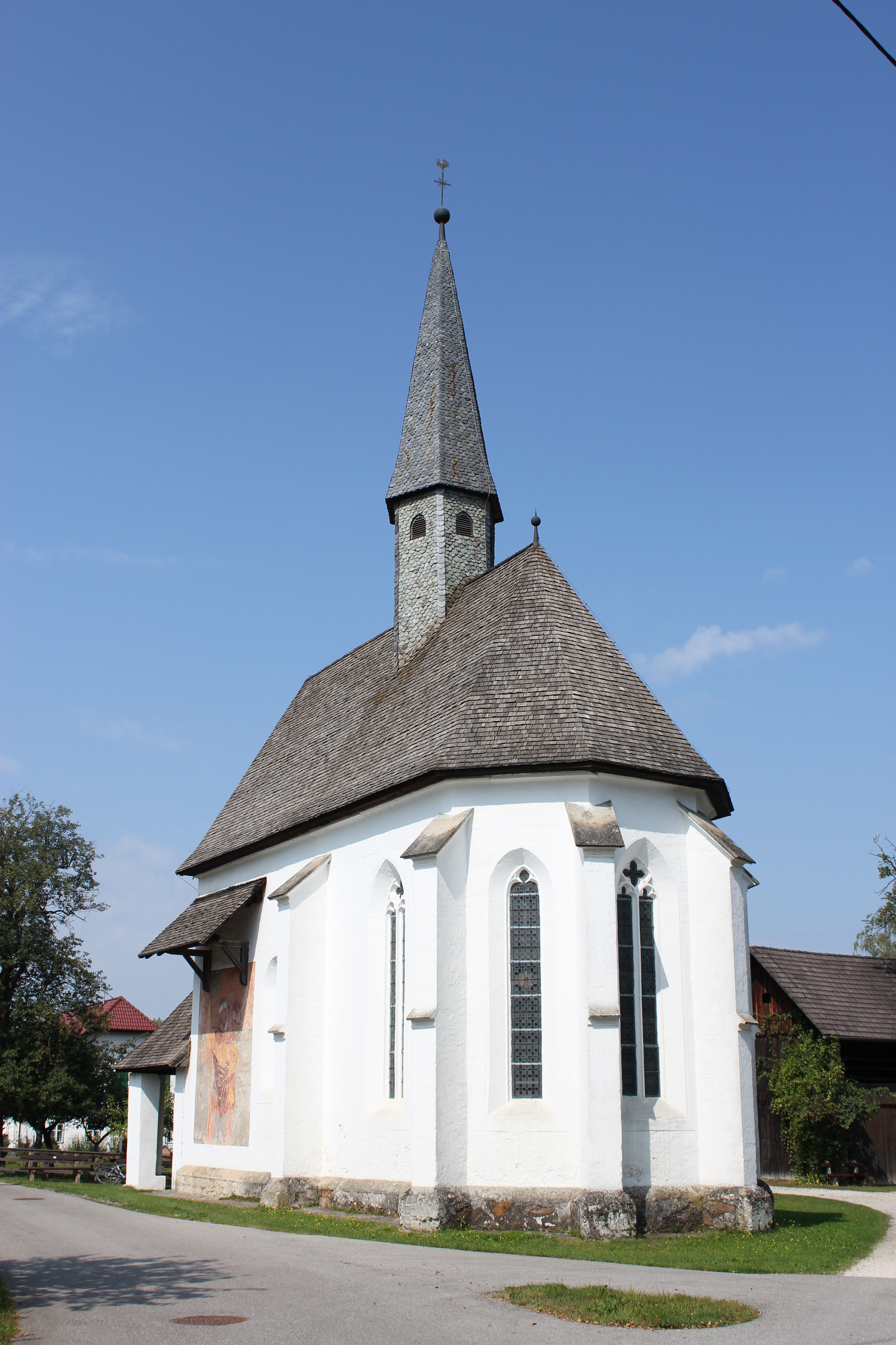 Church in Srejach in the community of Sankt Kanzian am Klopeiner See